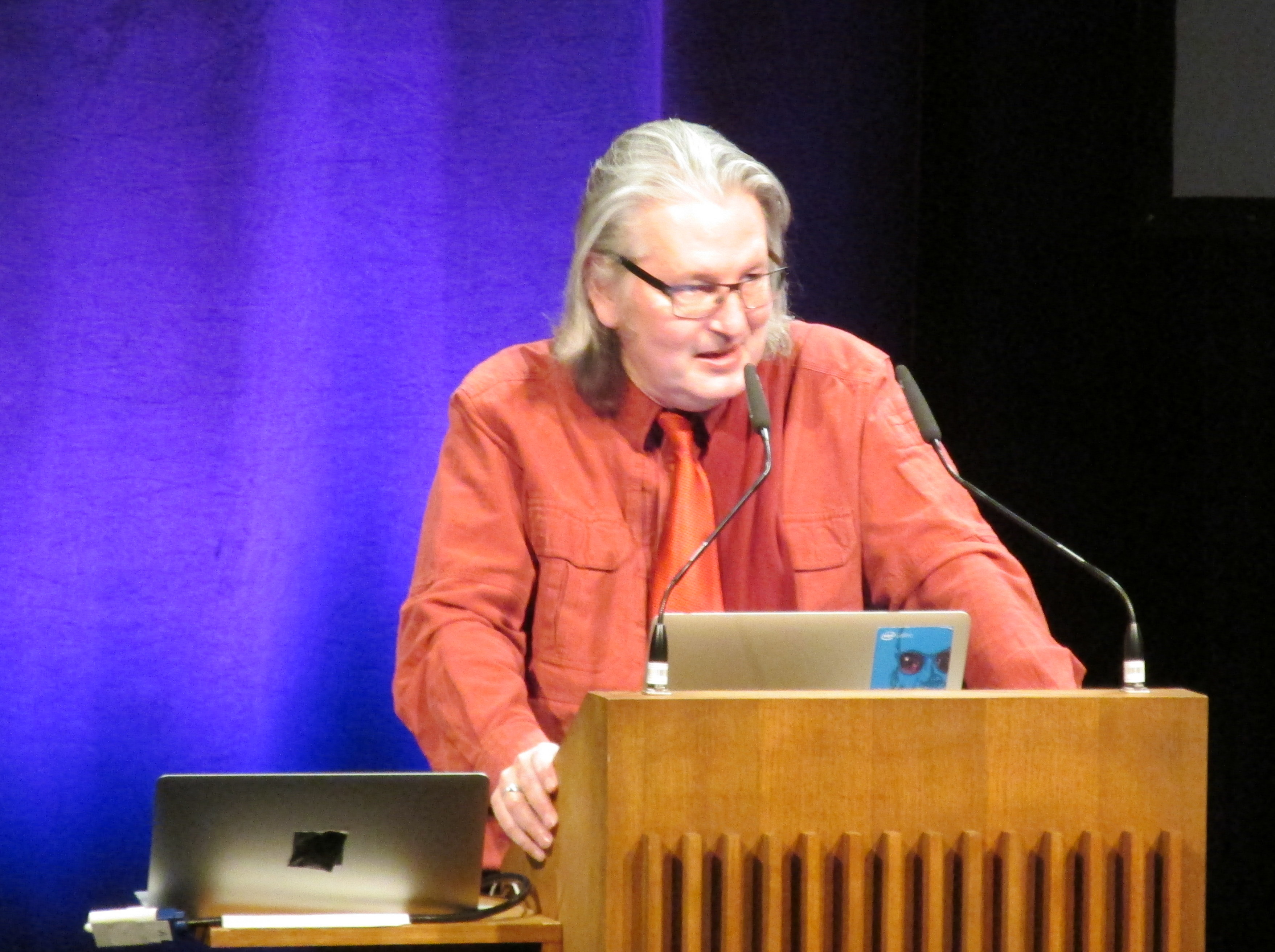 Bruce Sterling speaking during opening event of transmediale 2014 in Berlin